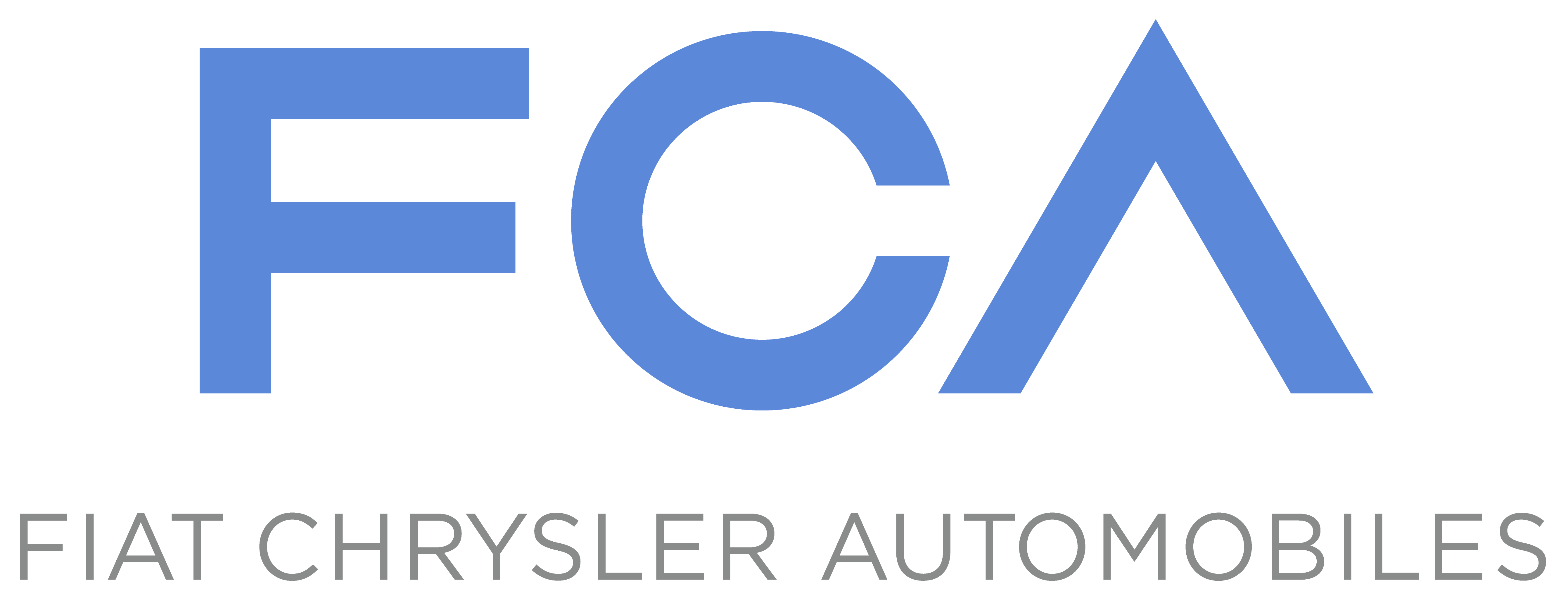 Logo of Fiat Chrysler Automobiles (abbreviated "FCA")